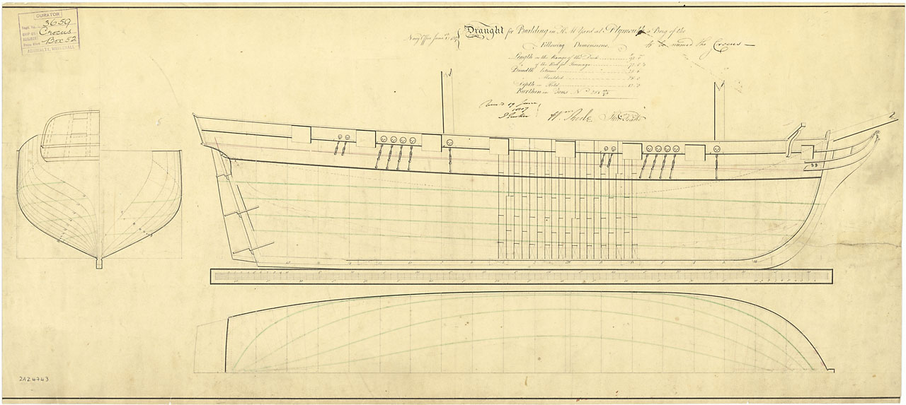 CROCUS 1808 lines